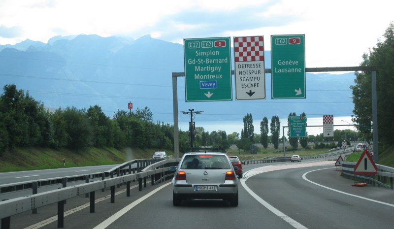 i love montreux